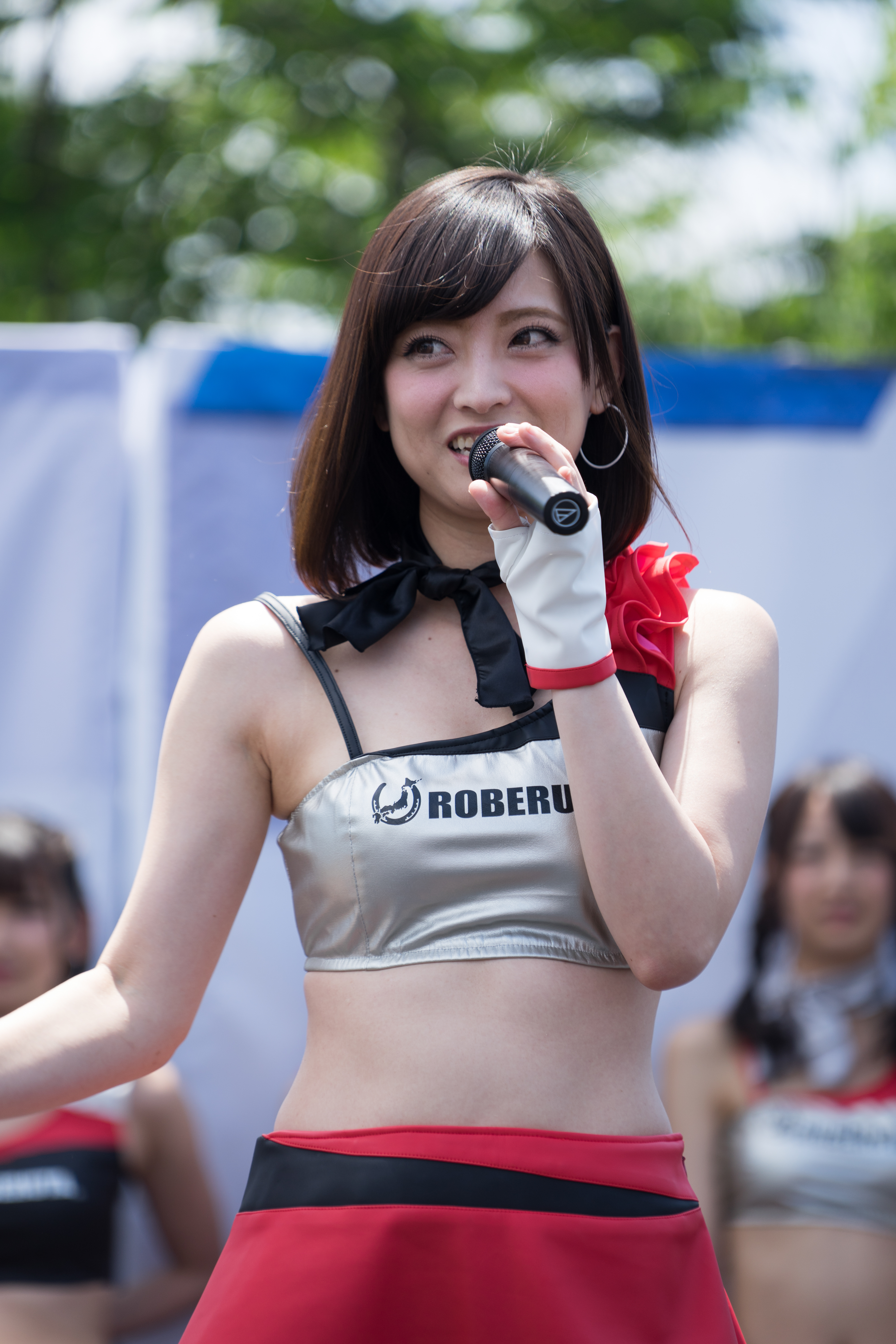 RED BULL AIR RACE CHIBA 2017-248.jpg